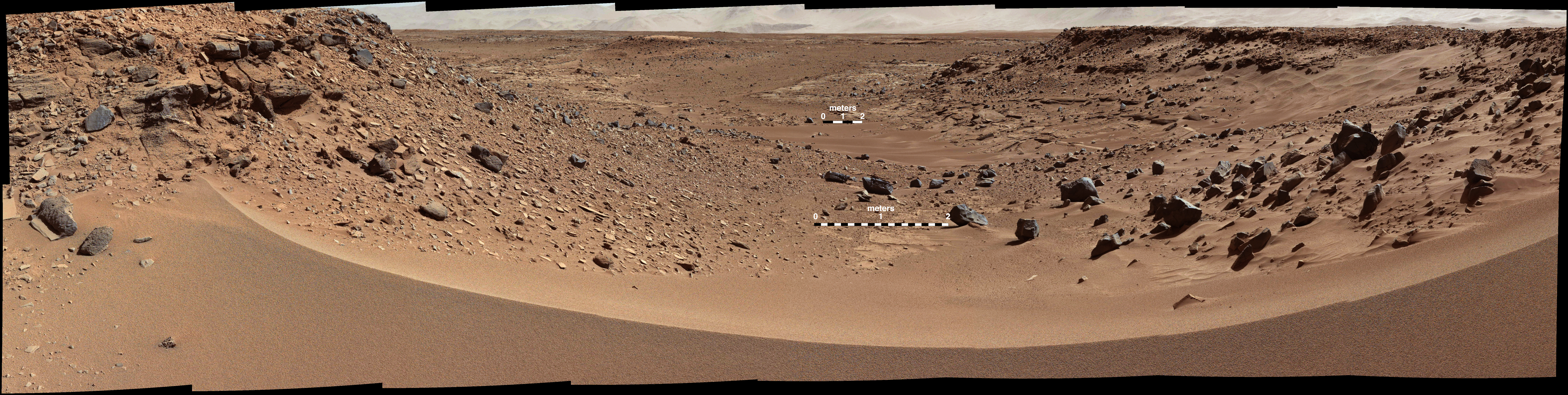 This view combines several frames taken by the Mast Camera (Mastcam) on NASA's Mars rover Curiosity, looking into a valley to the west from the eastern side of a dune at the eastern end of the valley. The team operating Curiosity has chosen this valley as a likely route toward mid-term and long-term science destinations. The foreground dune, at a location called "Dingo Gap," is about 3 feet (1 meter) high in the middle and tapered at south and north ends onto low scarps on either side of the gap. The component images were taken by Mastcam's left-eye camera during early afternoon, local solar time, of the 528th Martian day, or sol, of Curiosity's work on Mars (Jan. 30, 2014). The center of the view is about 10 degrees south of straight west. The left edge is about 20 degrees west of straight south. The right edge is northwest. The largest of the dark rocks on the sand in the right half of the scene are about 2 feet (about 60 centimeters) across. The image has been white-balanced to show what the rocks would look like if they were on Earth. A version with two 2-meter (79-inch) scale bars at distances of about 36 feet (11 meters) and 131 feet (40 meters) away from the rover is available as Figure 1. A version with raw color, as recorded by the camera under Martian lighting conditions, is available as Figure 2. NASA's Jet Propulsion Laboratory, a division of the California Institute of Technology, Pasadena, manages the Mars Science Laboratory Project for NASA's Science Mission Directorate, Washington. JPL designed and built the project's Curiosity rover. Malin Space Science Systems, San Diego, built and operates the rover's Mastcam. More information about Curiosity is online at and